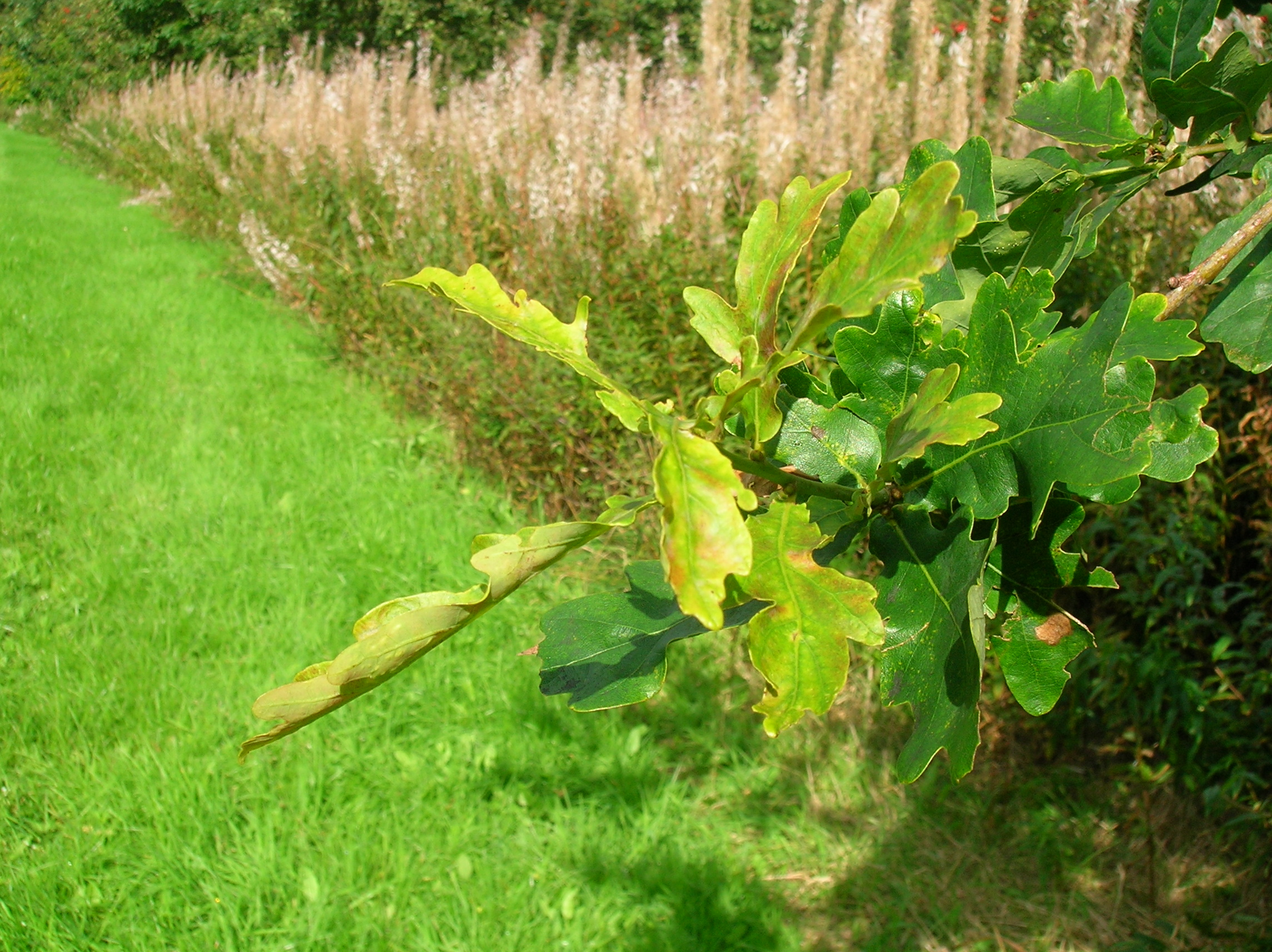 Lammas growth on Quercus robur. Eglinton Country Park